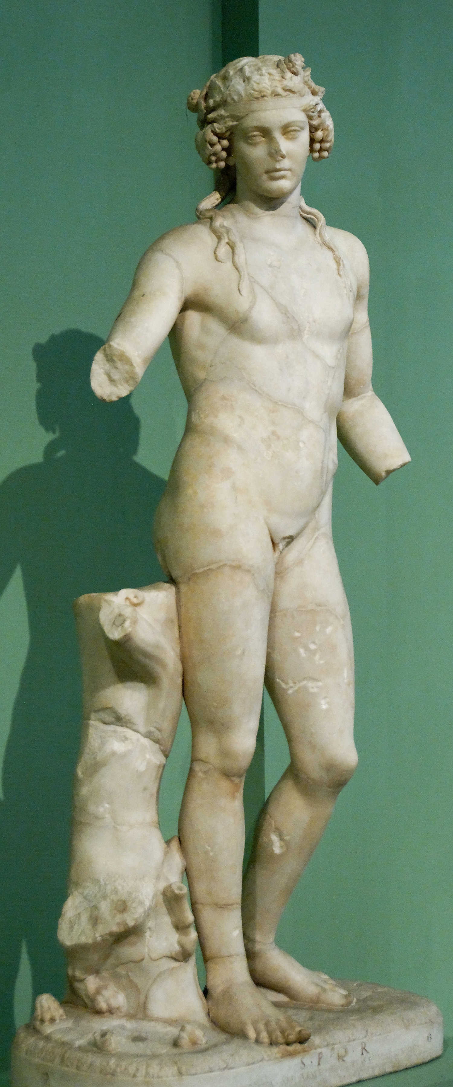 Dionysos accompanied by a panther. Pentelic marble, Roman artwork after several Hellenistic models. From the temple of Minerva Medica in the Horti Liciniani, 1879.